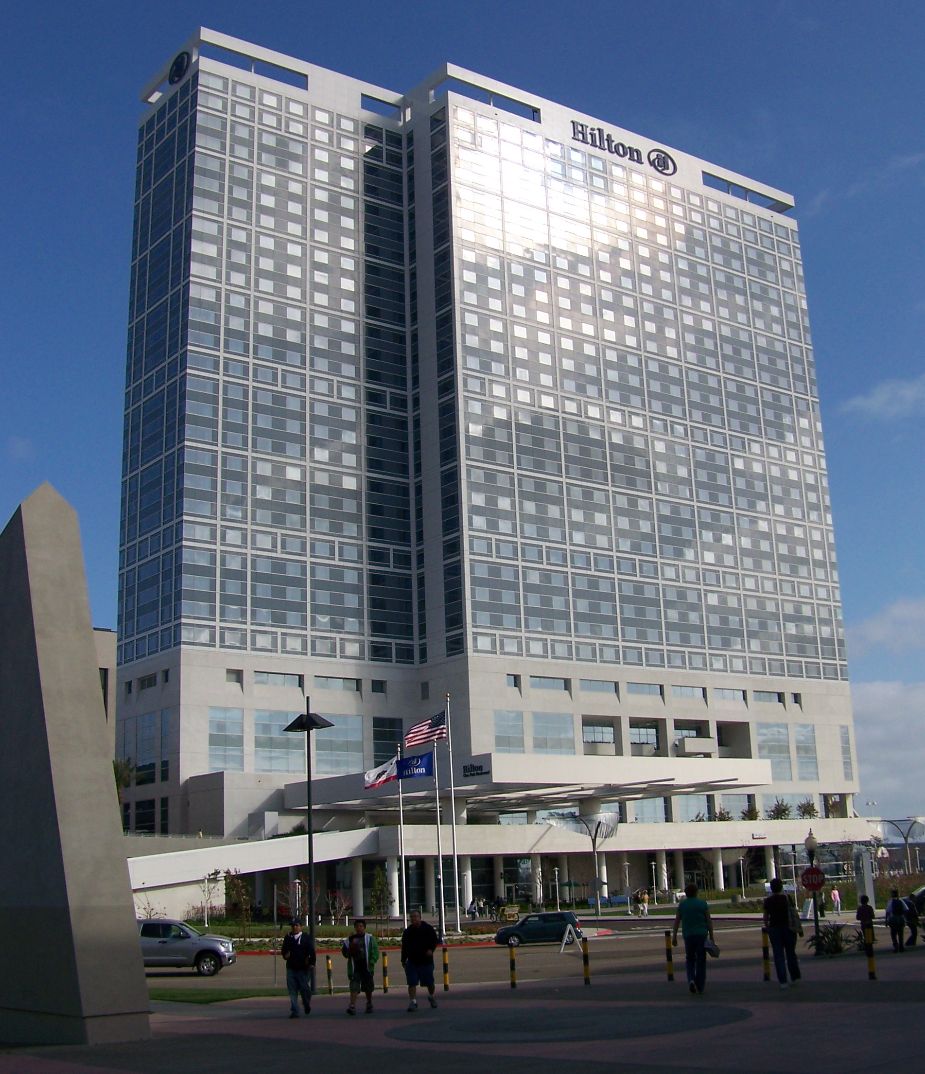 Hilton San Diego Convention Center Hotel skyscraper near the Convention Center in San Diego, California. Construction was completed in 2008.